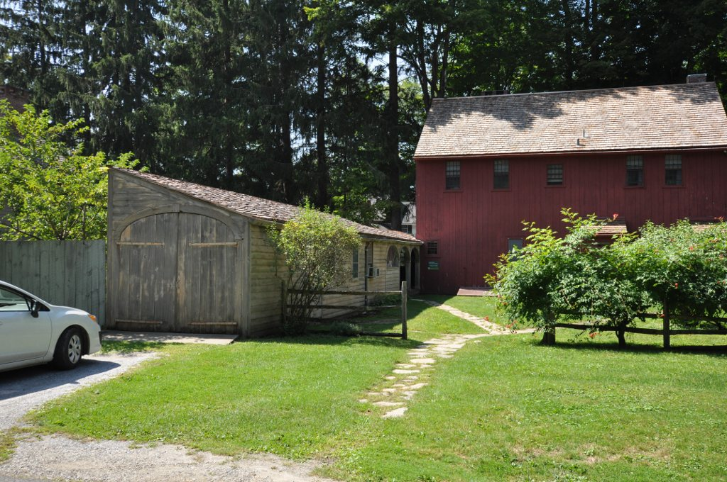 Mission House, Stockbridge, MA. Outbuildings behind the main house.